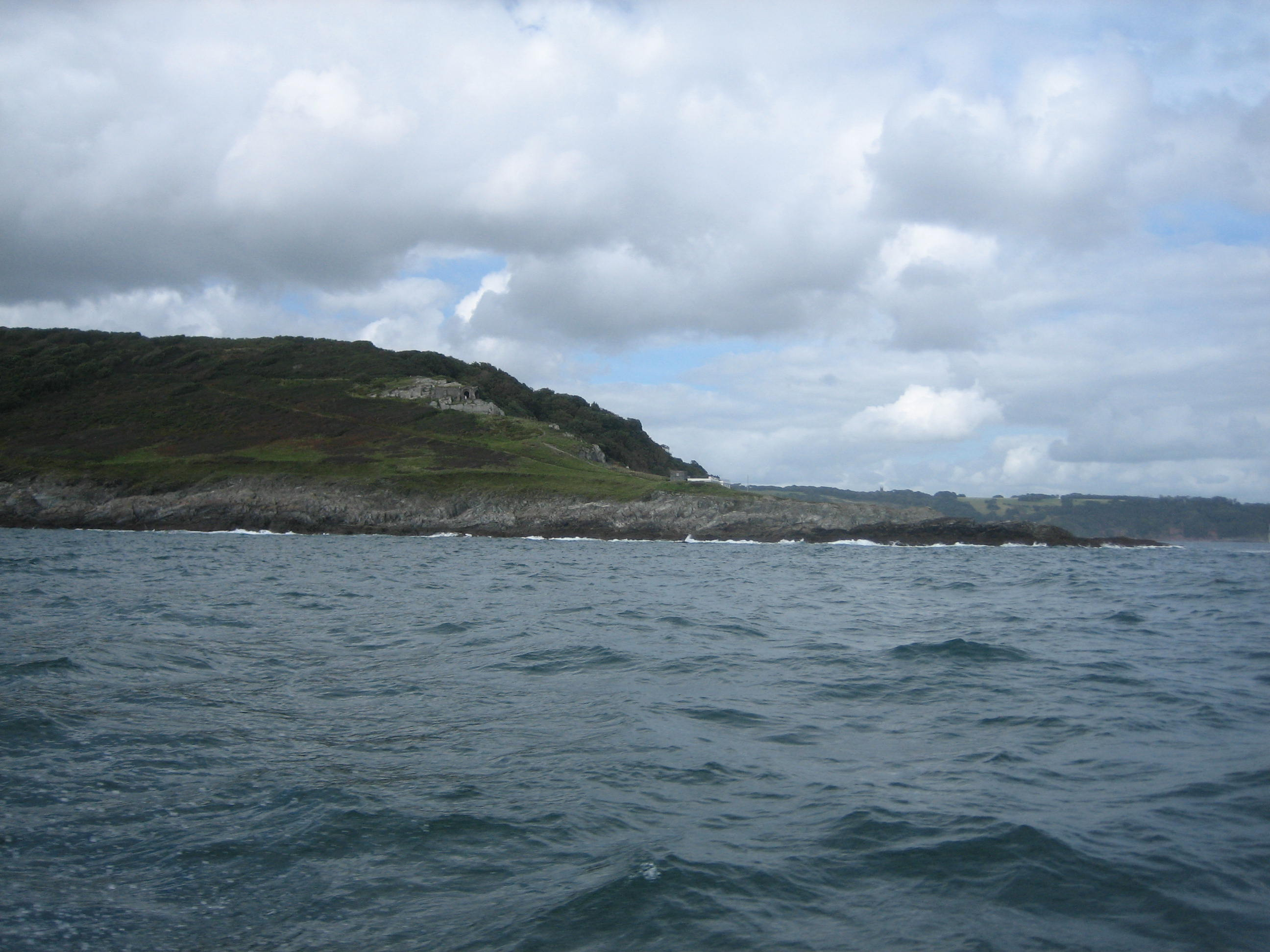 Penlee Point at Rame, Cornwall, UK